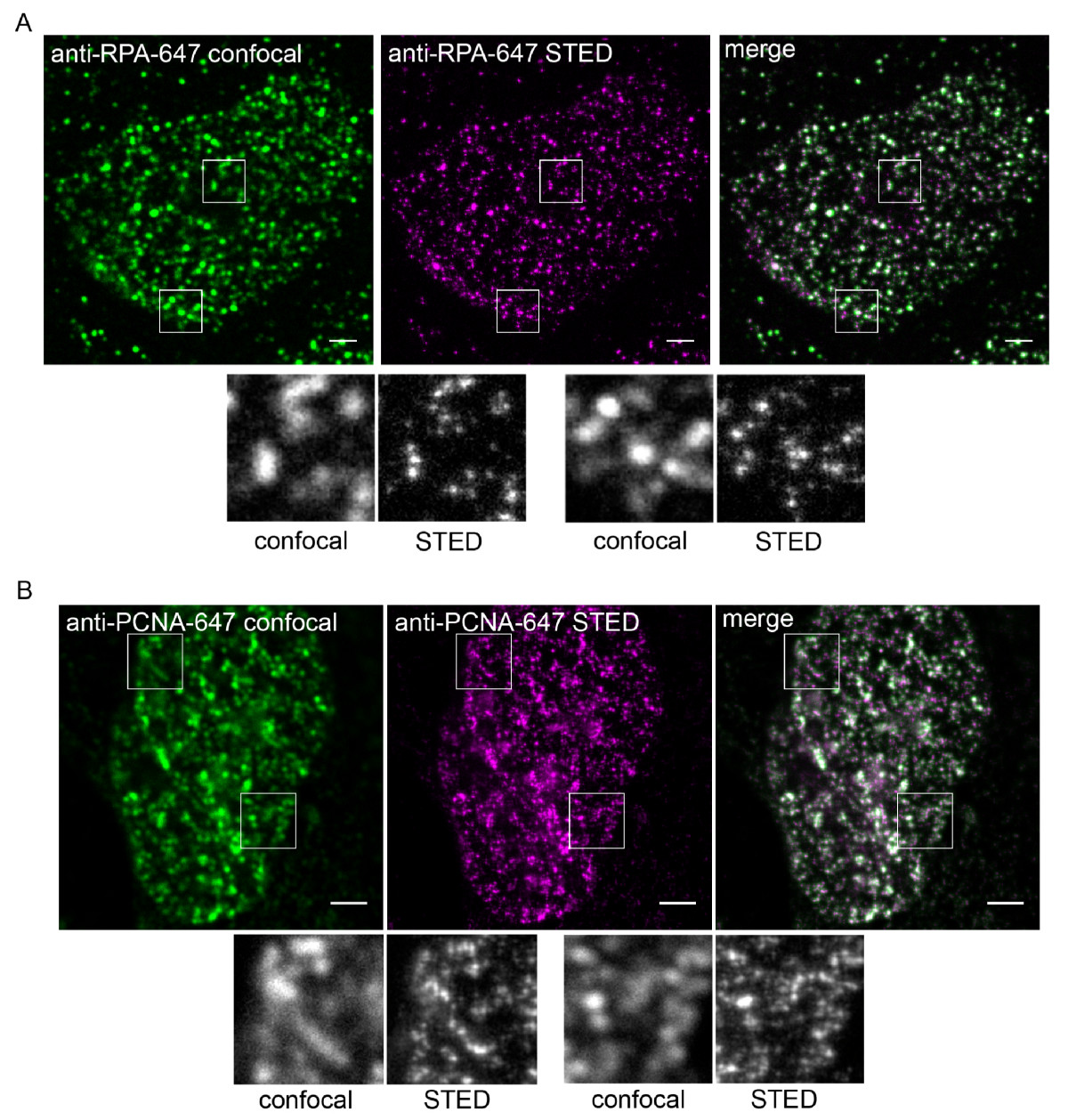 Original description: STED imaging of replication factories. MRC5 cells were labelled with ATTO 647-linked secondary antibodies and anti-RPA (in A) or anti-PCNA (in B) primary antibodies. Images were acquired sequentially, in normal confocal mode (green) then using the STED setup (magenta). The lower panels are magnified regions of the cells as indicated. Scale bars = 2 μm